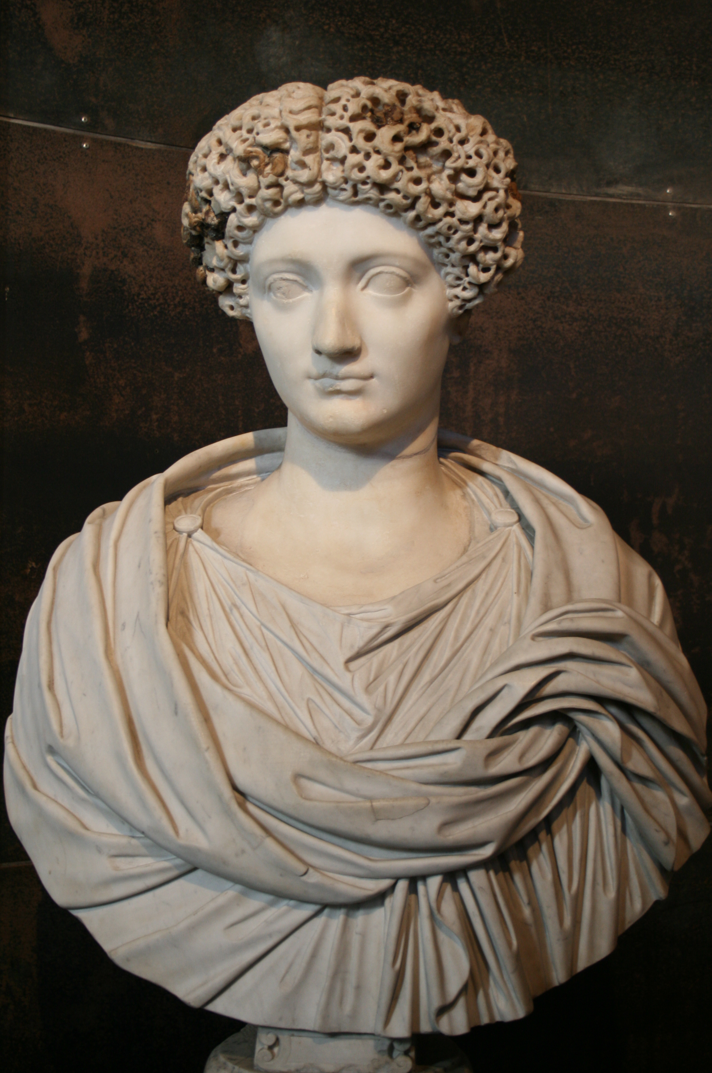 Flavia Iulia, daughter of the roman emperor Titus